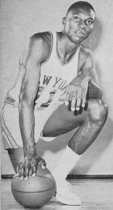 Professional basketball player Johnny Green